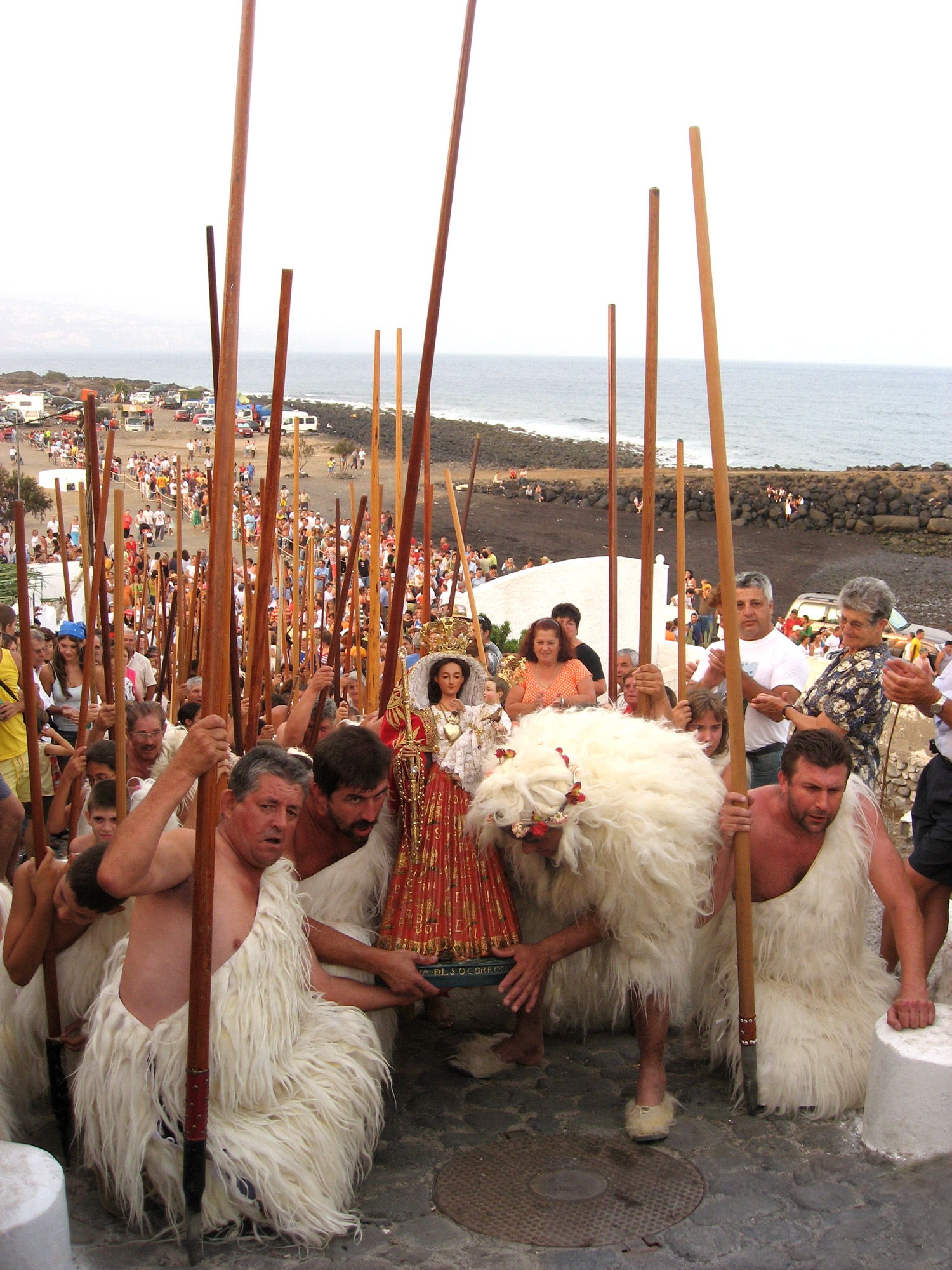 (September 7) Annual performance to honour Our Lady of Candelaria at Socorro Beach, Güímar, Tenerife, Canary Islands, Spain. It conmmemorates a Marian apparition: According to a legend recorded by Alonso de Espinosa in 1594, the image of Our Lady of Candelaria appeared before Guanche shepperds around 1400, before the Castilian conquest of the island, hence the fur capes